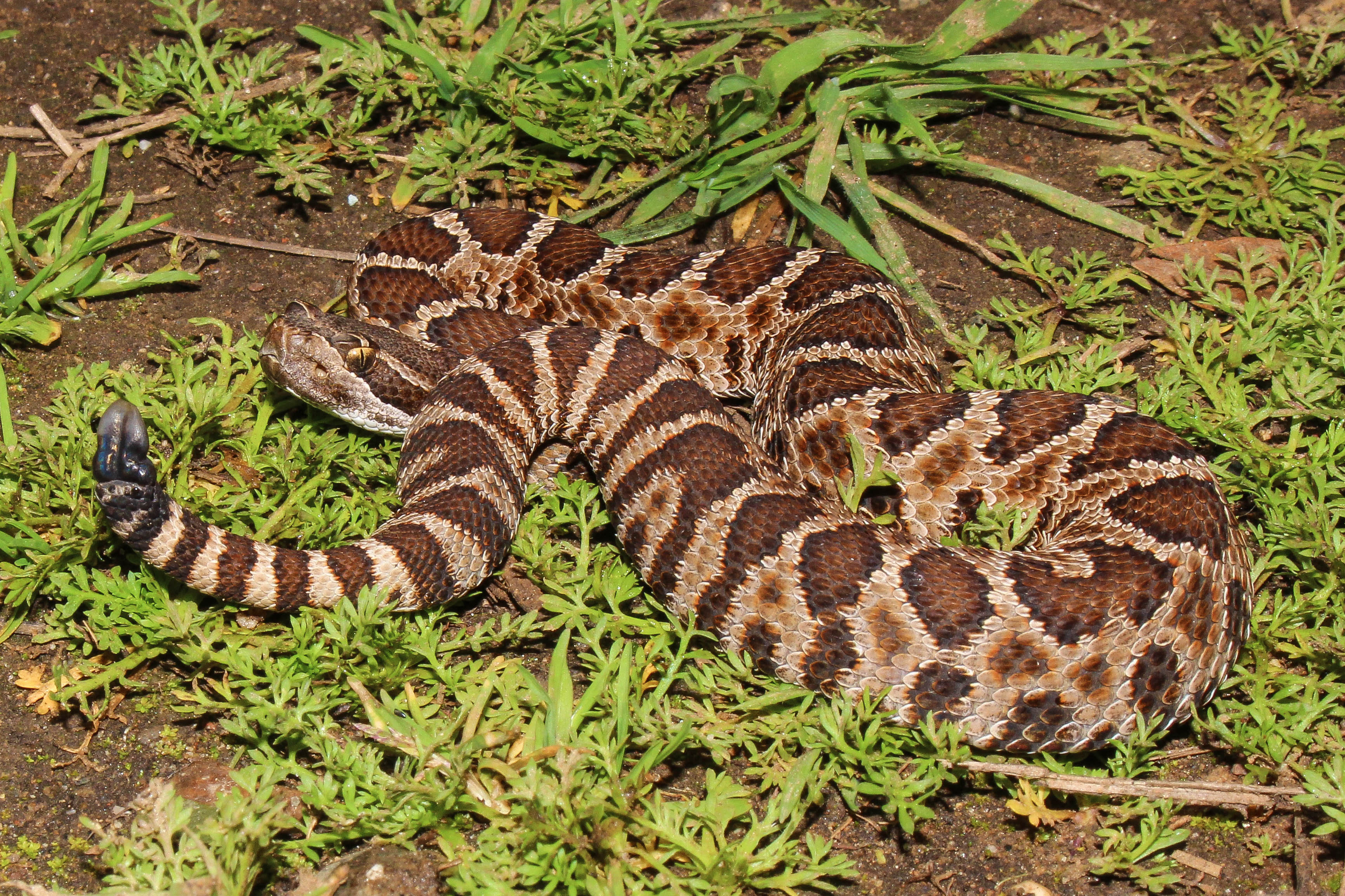 Juvenile Northern Pacific Rattlesnake (Crotalus oreganus). Sacramento County, CA.